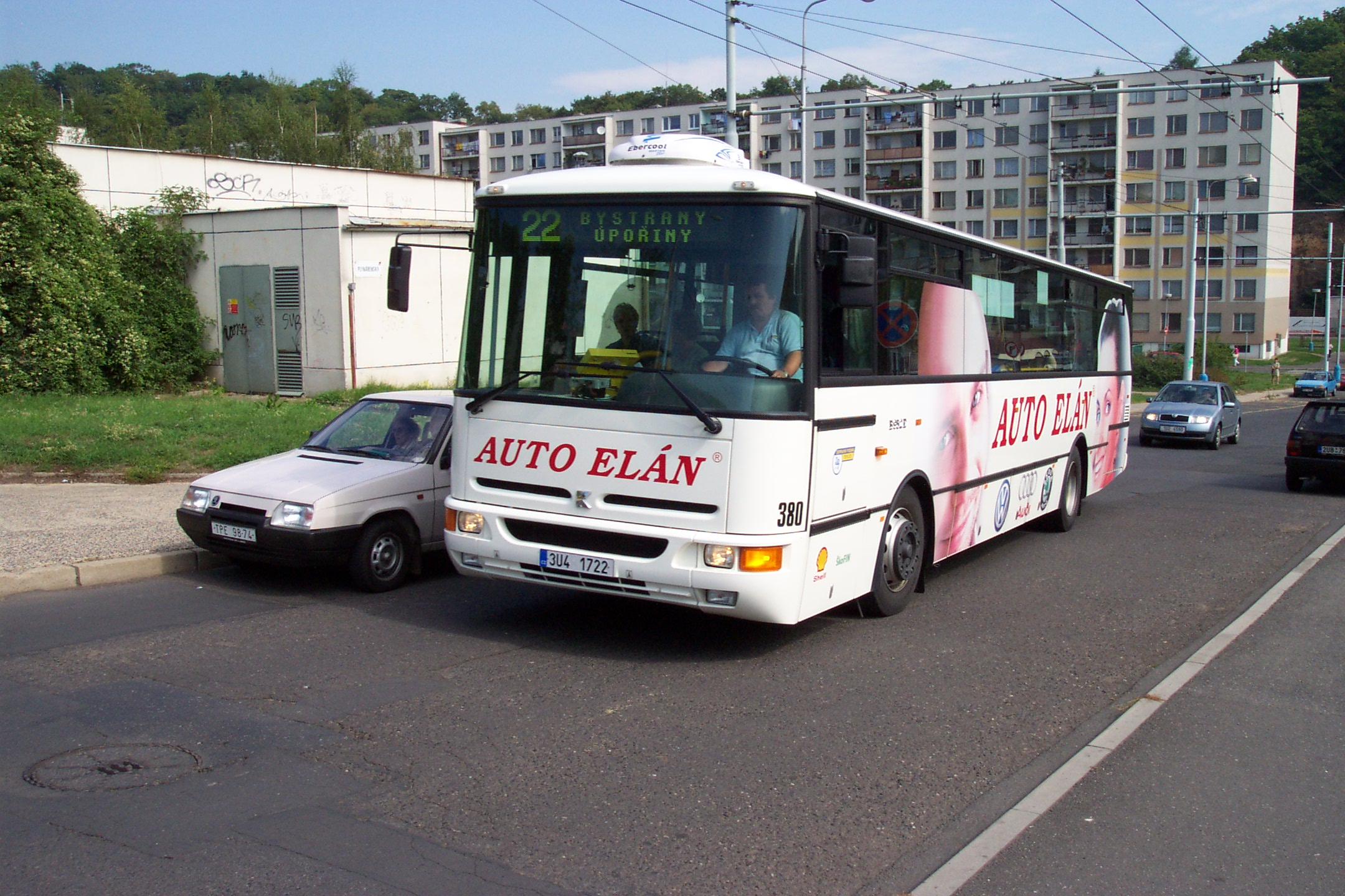 Teplice-Prosetice, Czech Republic, Plynárenská street, Karosa bus of Dopravní podnik Teplice.